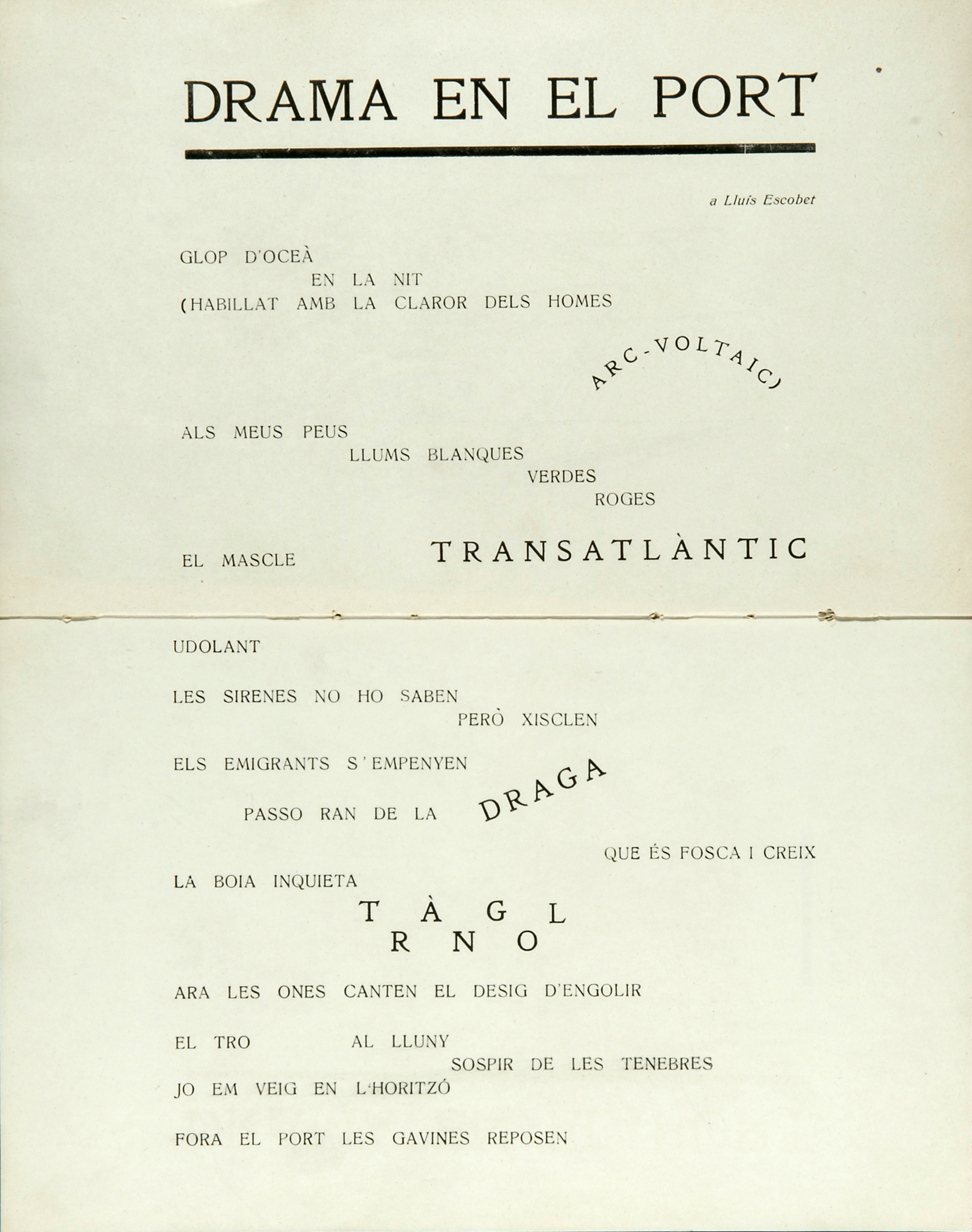 Drama en el port from the Catalan book Poemes en ondes hertzianes.